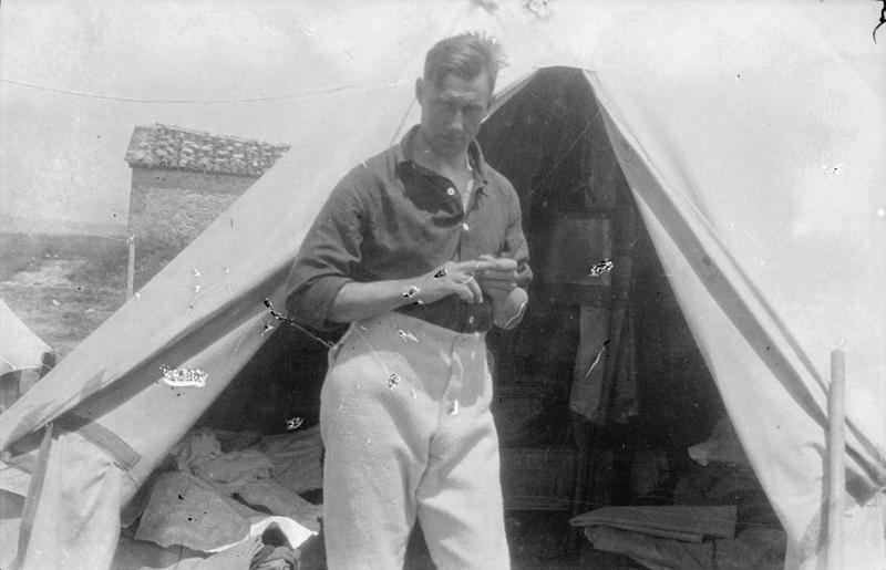 Knatchbull M (capt the Hon) Collection No. 5 Squadron R. N. A. S; Flight Commander G. L. Thompson: Tenedos, Gallipoli, June 1915.